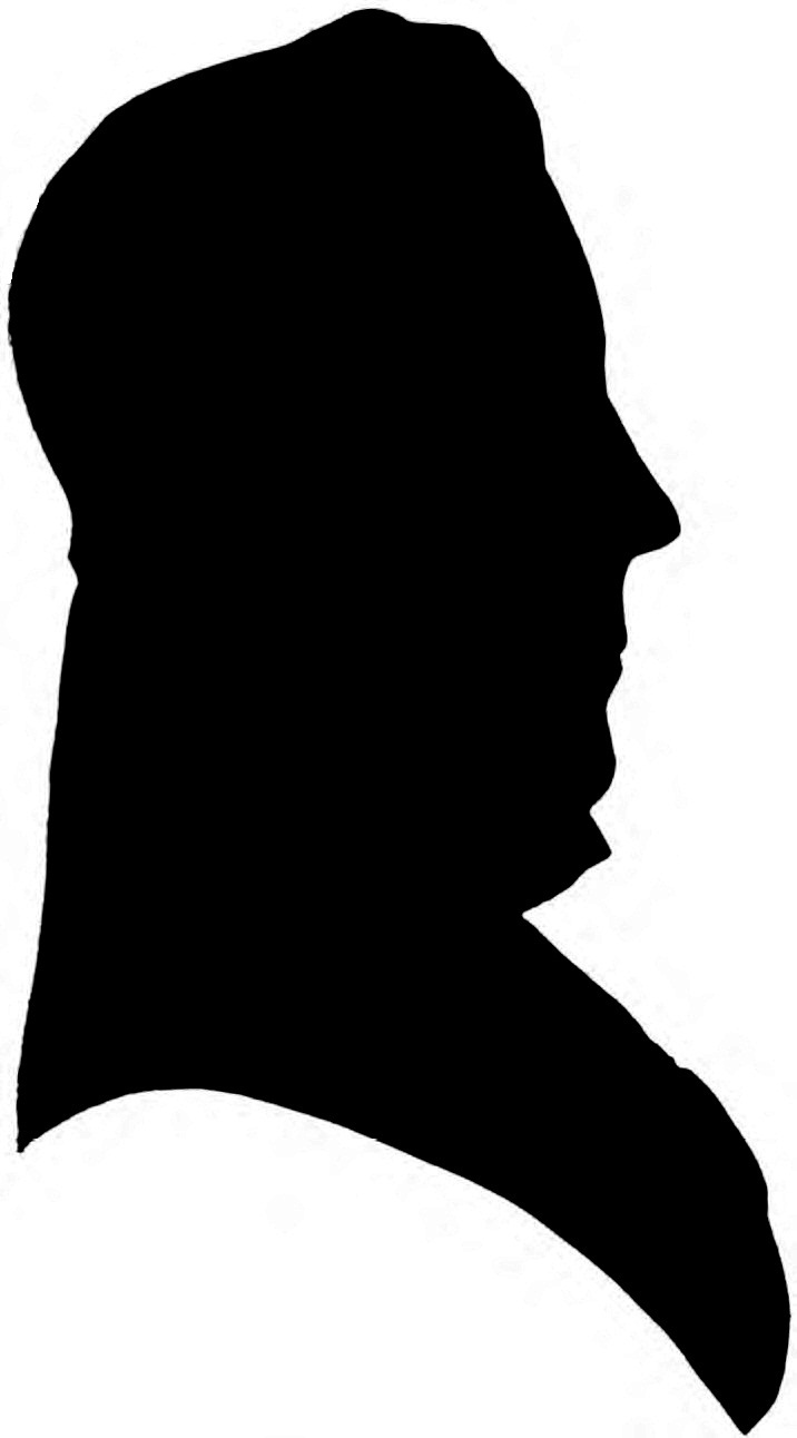 William Russell (Ohio politician) was a politician from Ohio.